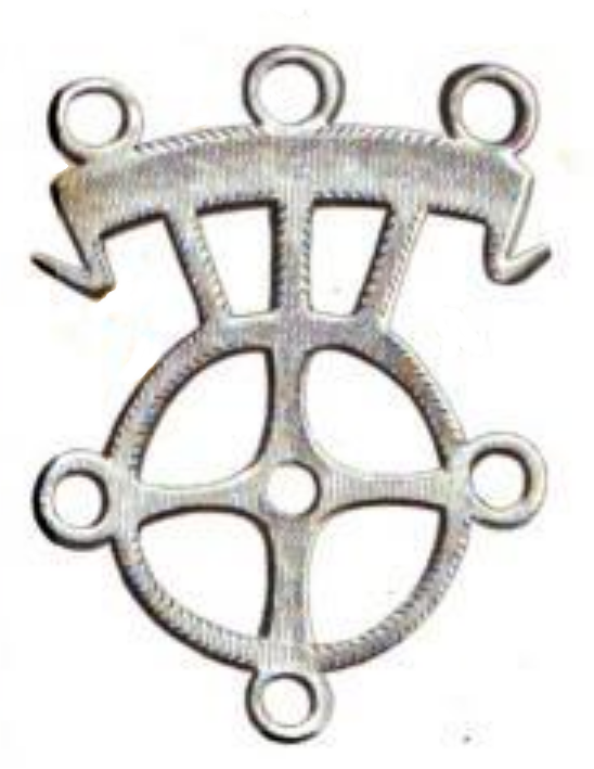 Drawing of an artefact from the late bronze age, found at Charroux (Allier)